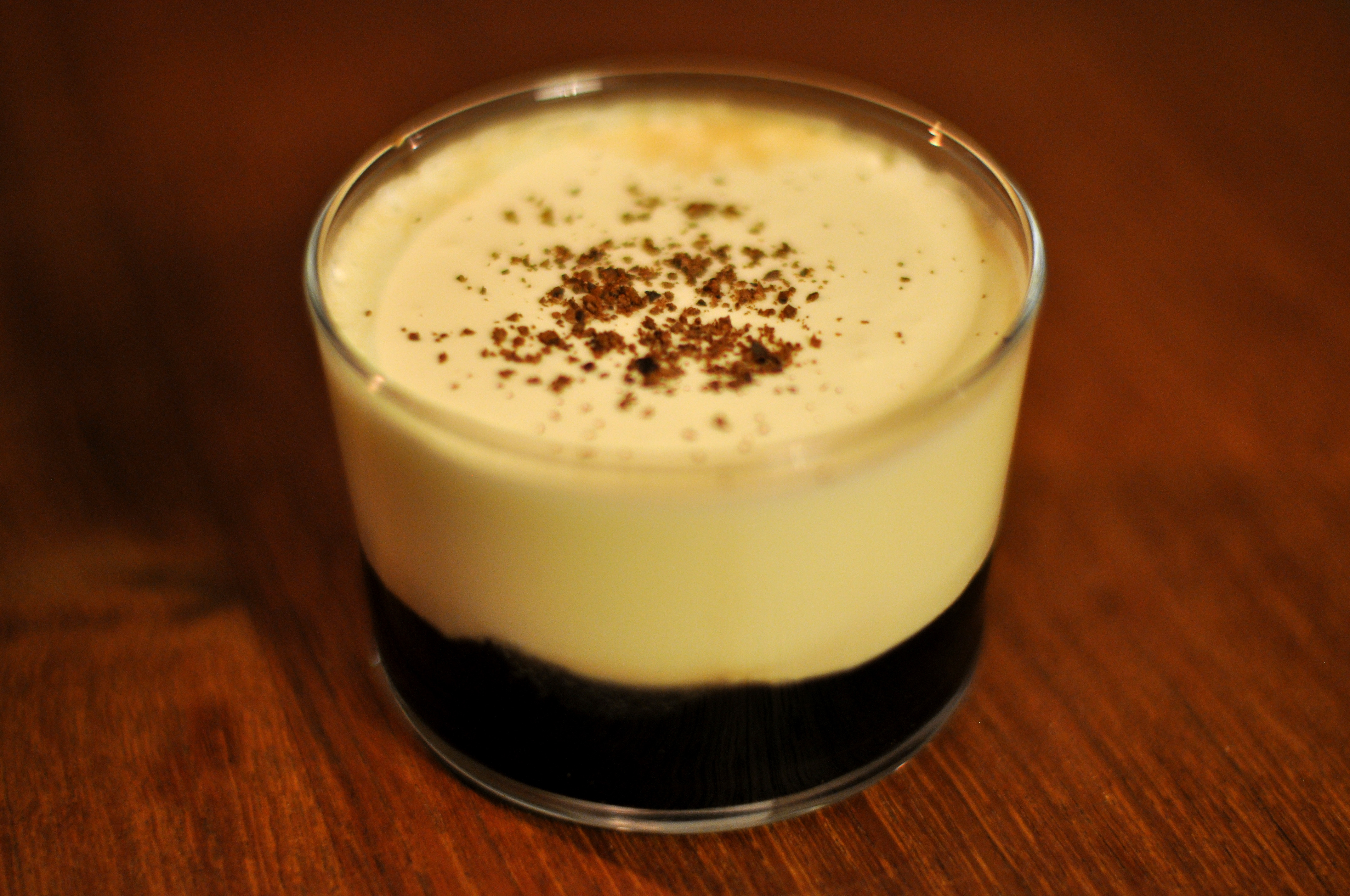 White russian